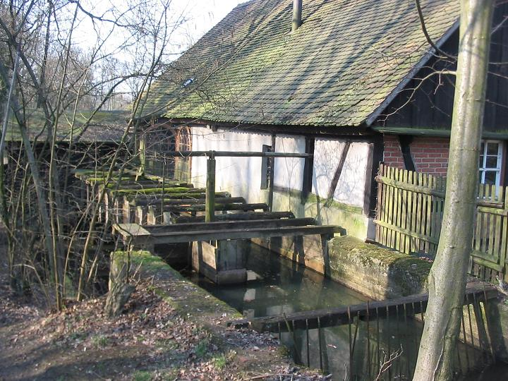 Historical watermill „Kupferhammer Thießen“ at river Rossel (Elbe-tributary) in the village Thießen. Thießen is a municipality in the nature park Fläming in the district Wittenberg, state Saxony-Anhalt, Germany.